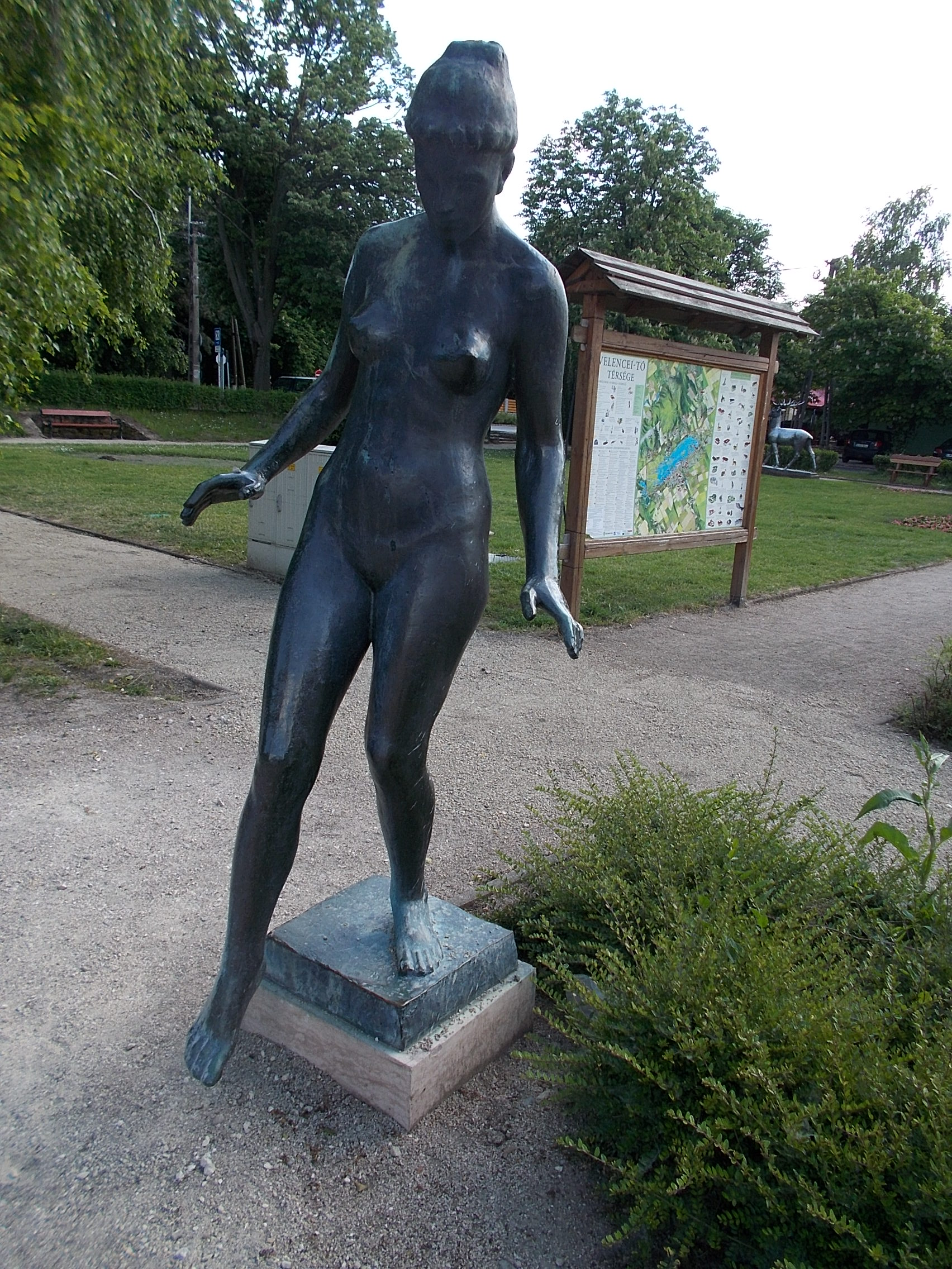 Girl entering the water by Ferenc Laborcz. - Balatoni út Park, Agárd, Gárdony, Fejér County, Hungary.